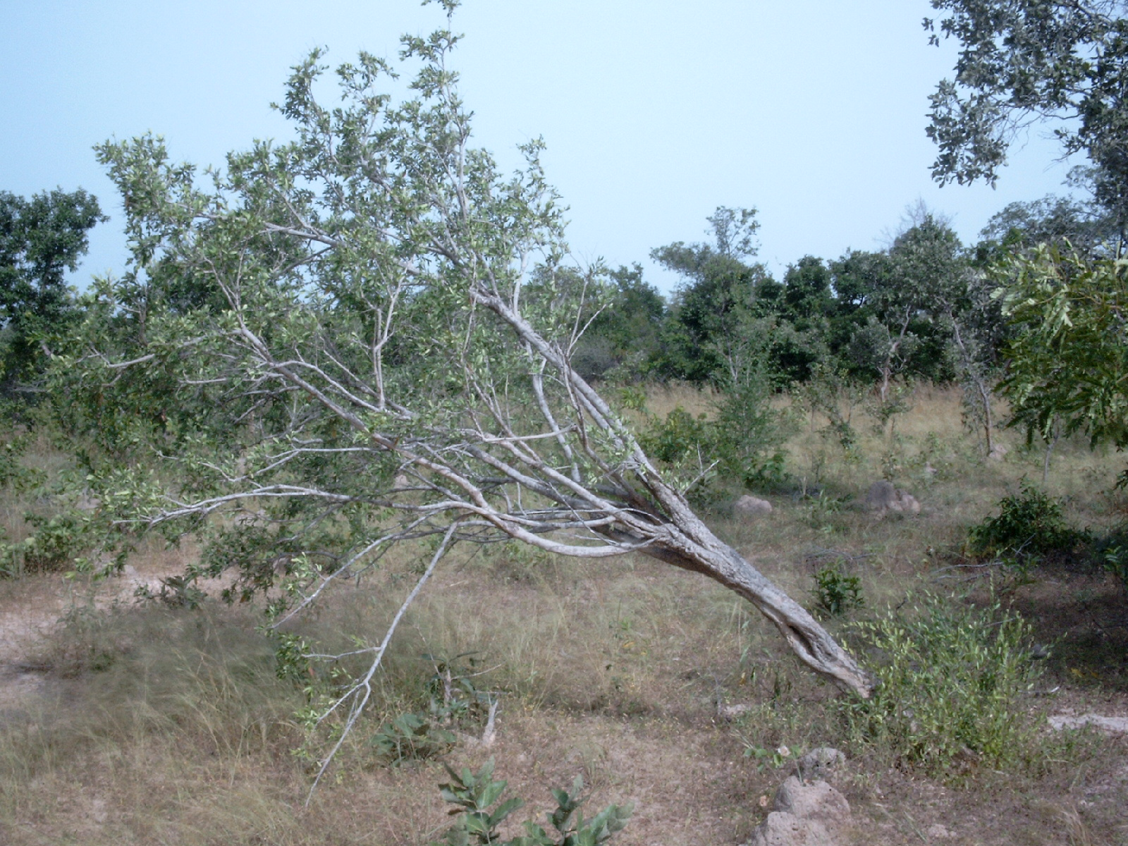 Destructive root harvesting for traditional medicine. In the Sahel sub-Saharan savanna region, near Fada N'Gourma, Burkina Faso.